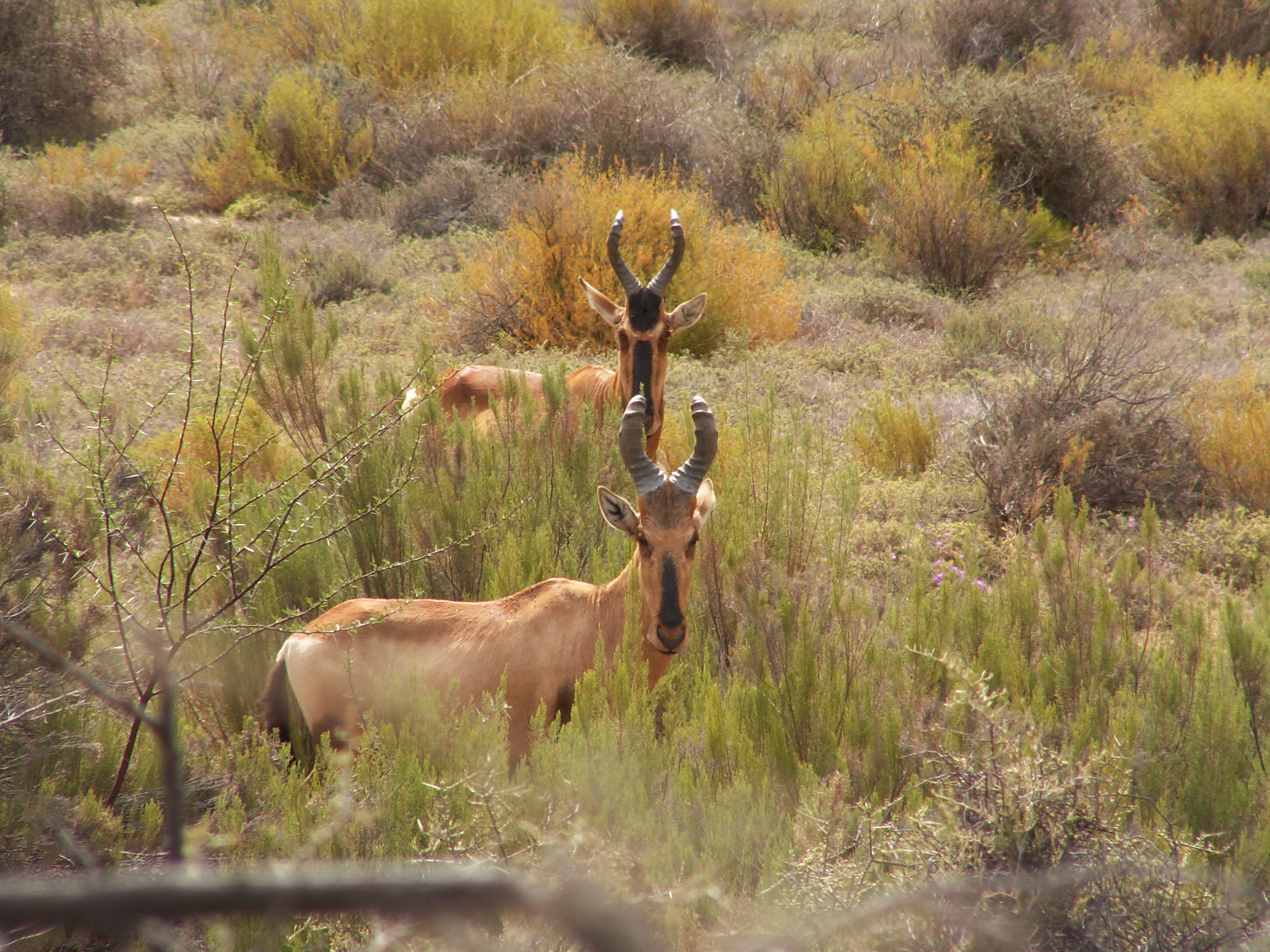 Hardebeest, Anysberg Nature Reserve, Western Cape, South Africa